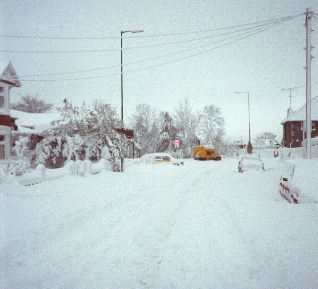 Wildcroft Road in snow,1990 On the morning of Saturday 8th December 1990, a heavy localised snowfall accompanied by strong winds caused chaos on the roads in the area. This photograph was taken as the snowfall ceased. The yellow van (possibly telephone maintenance) is trying to negotiate the junction from Broad Lane into Wildcroft Road. The snow is piled to the tops of the garden walls approximately 80cm high and is weighing down tree branches and telephone wires.